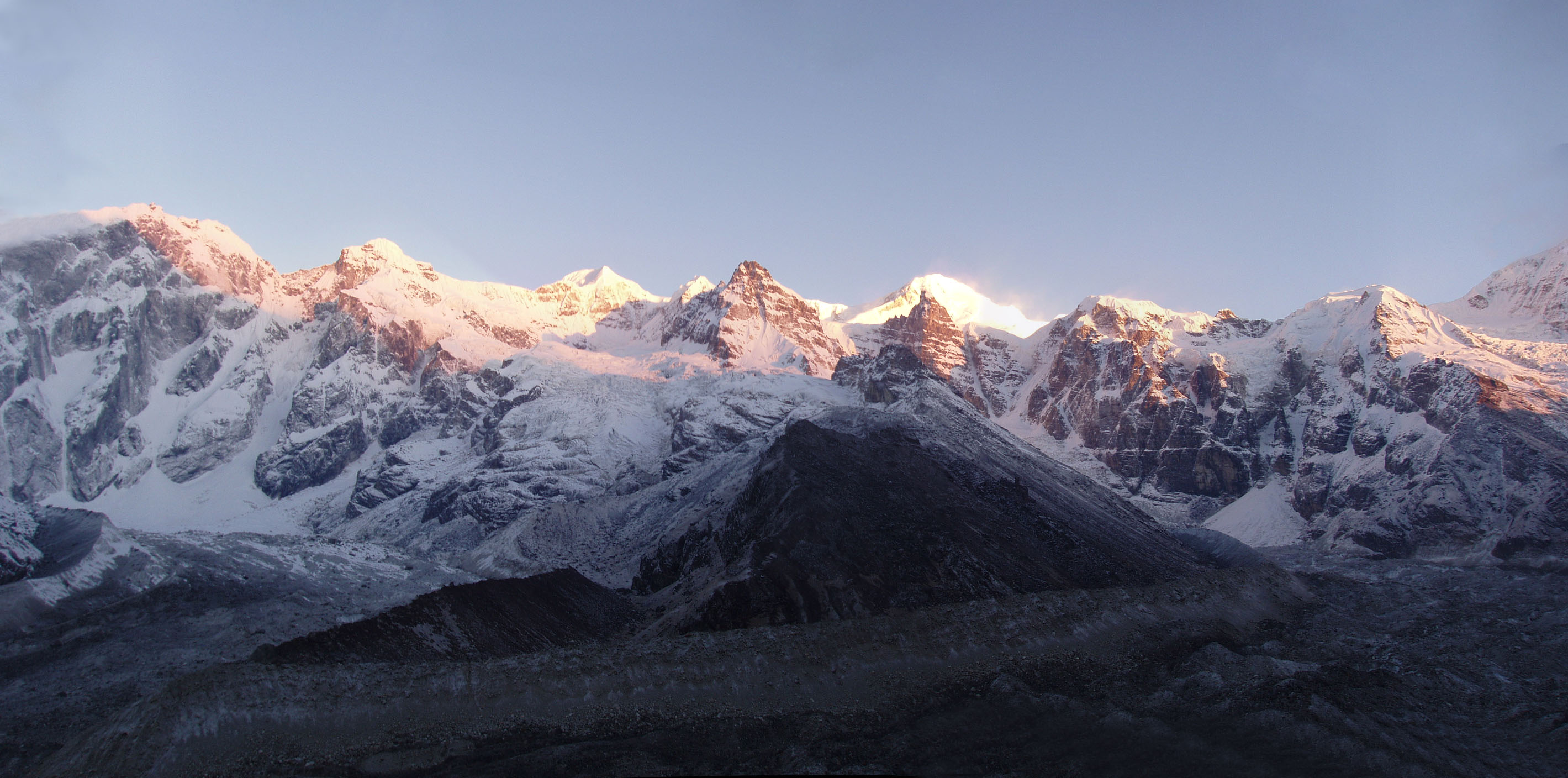 The Kabru Complex seen from Goecha la pass